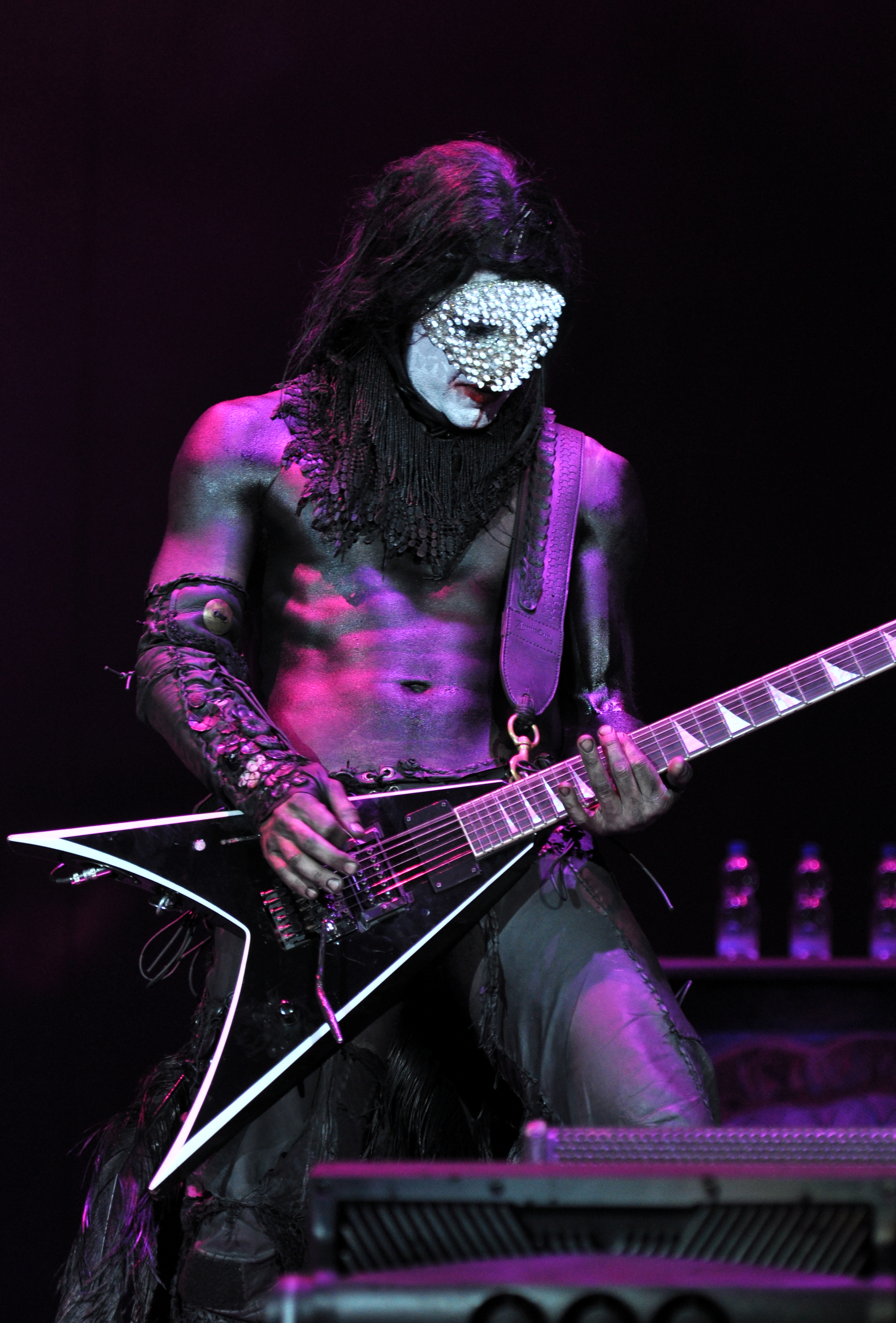 Wes Borland of Limp Bizkit at Rock am Ring 2013